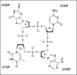 I (John Schmidt) made this diagram for Wikipedia.